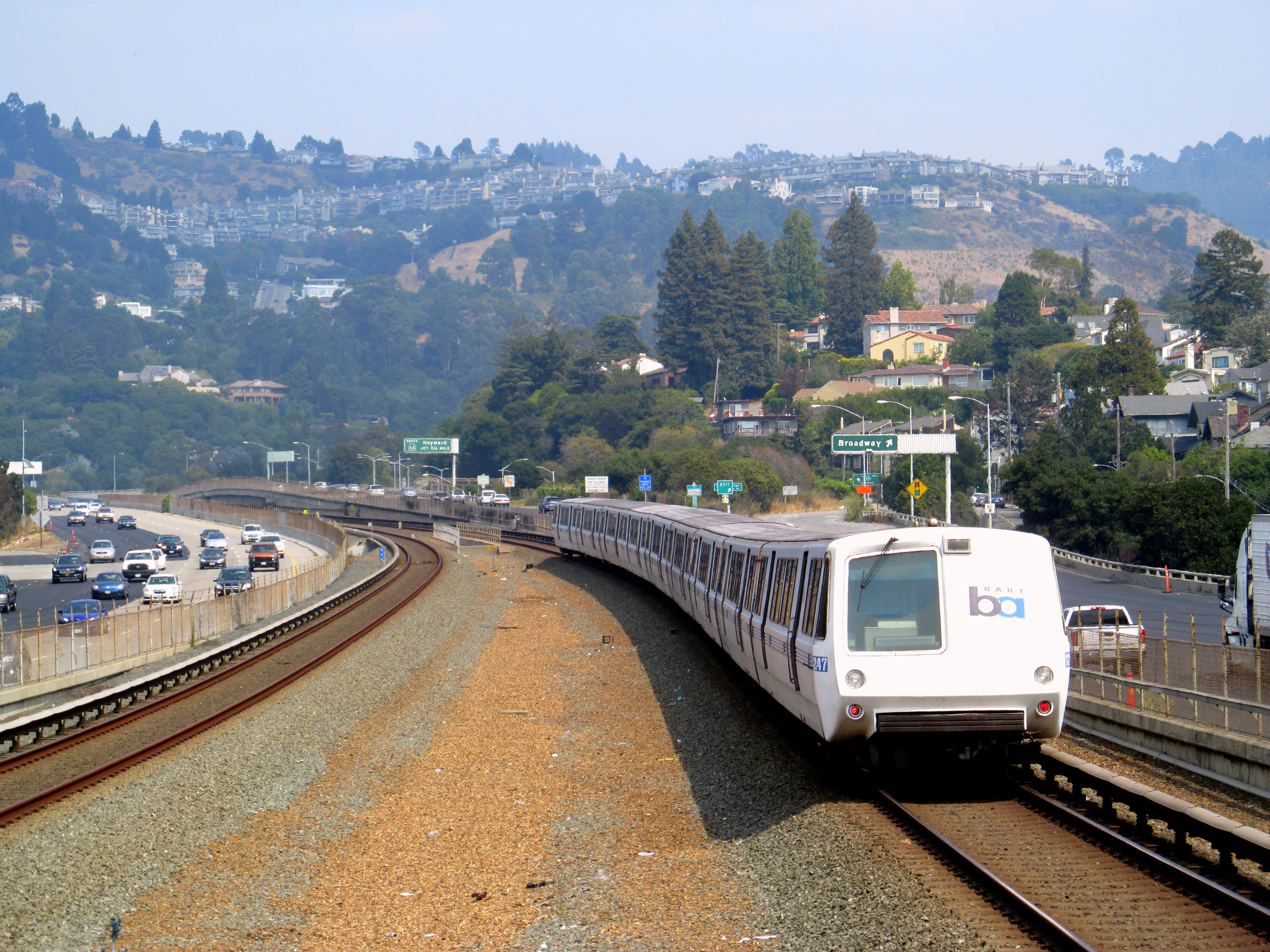 Eastbound train leaving Rockridge station towards the Berkeley Hills in September 2017